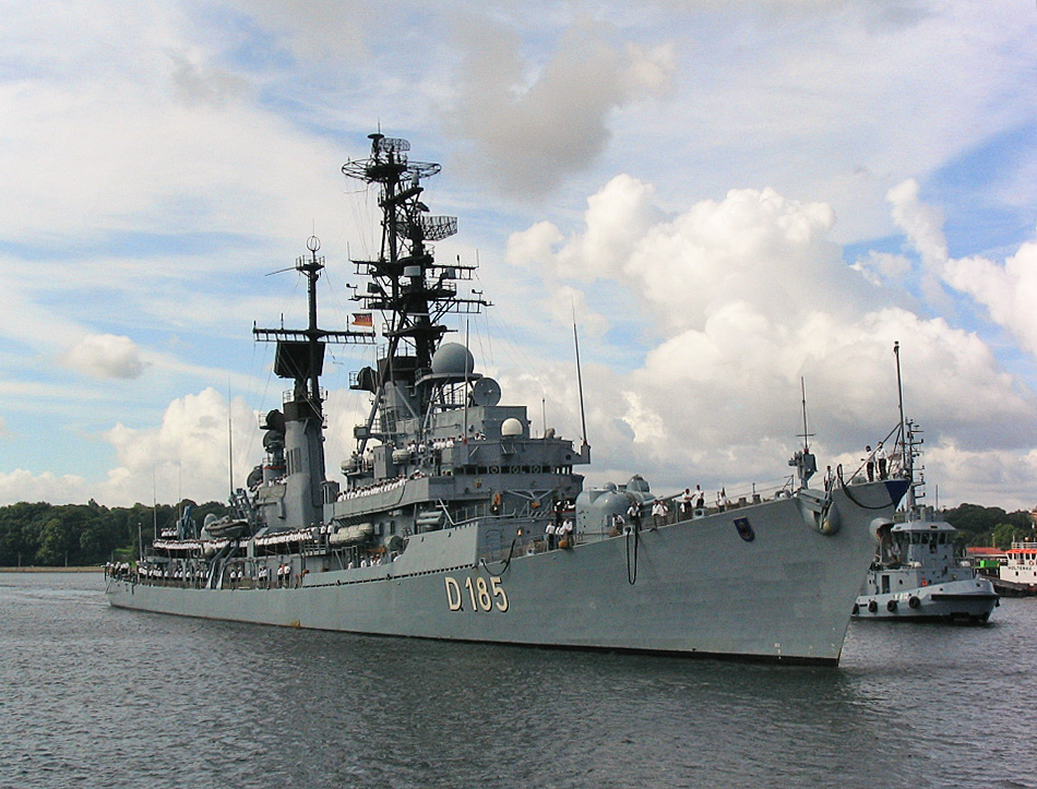 The German guided missile destroyer Lütjens (D185) entering Kiel, Germany, on 12 July 2003.